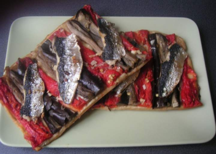 Catalan coca de recapte